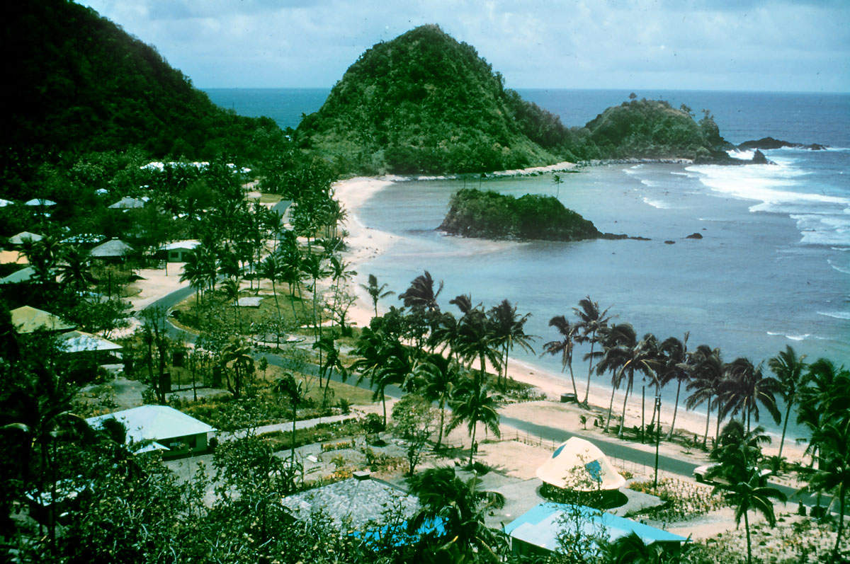 American Samoa and Pago Pago.